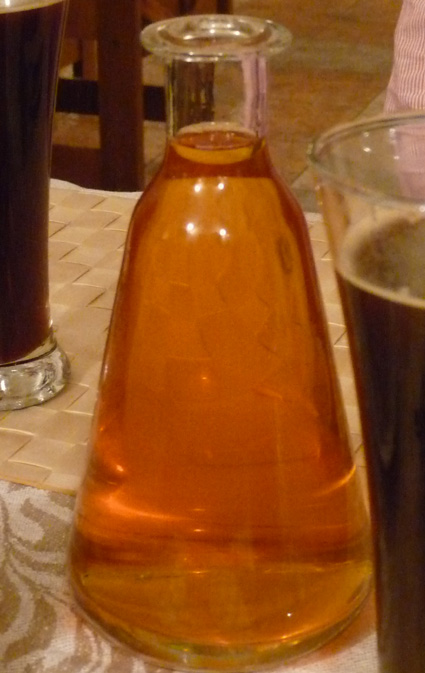 Belorussian Krambambulya in moscow restaurant "Belaya Rus"